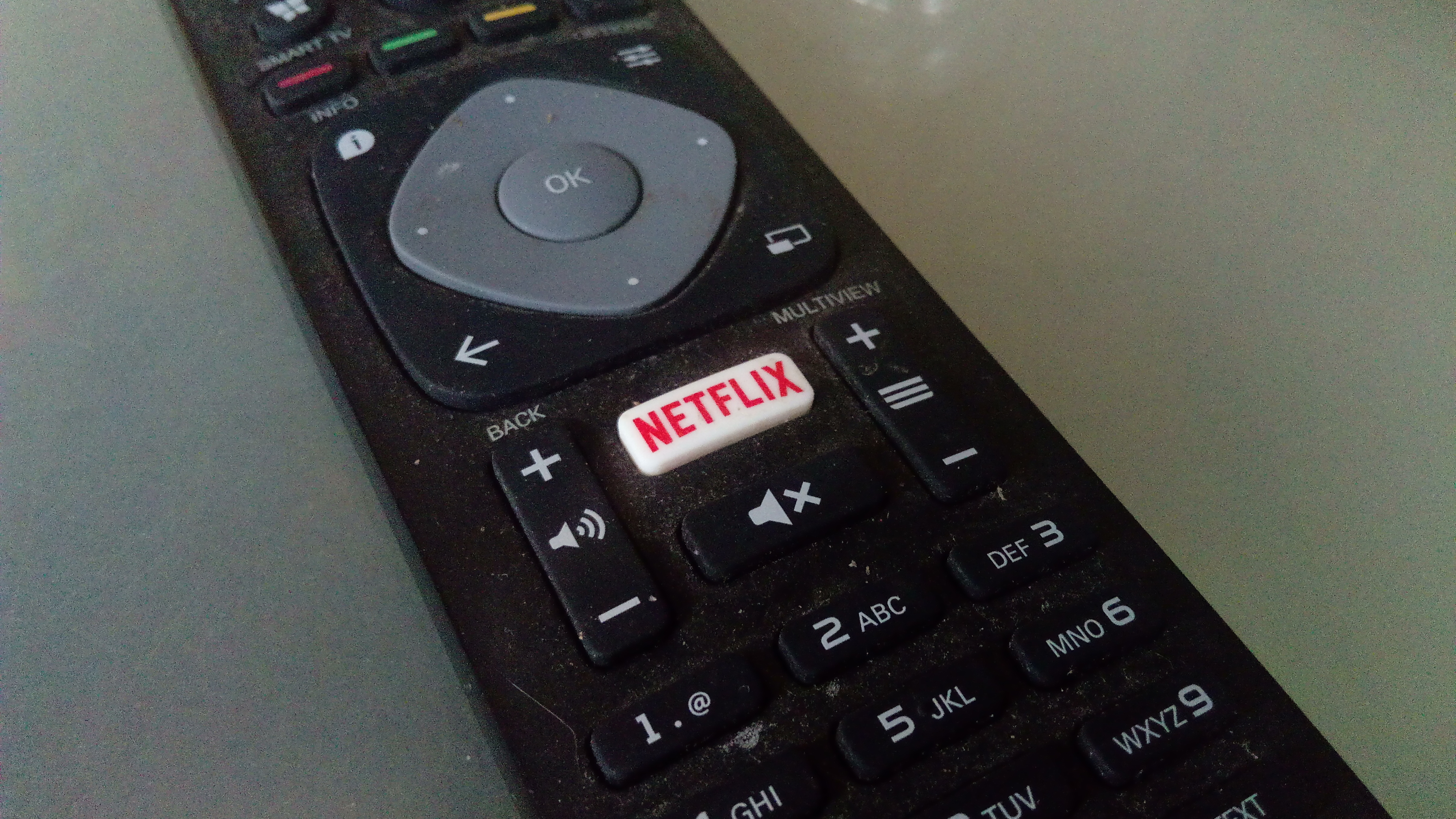 A remote control for a Philips smart TV with a special button for the Netflix streaming service in the Groninger village of Finsterwolde, Oldambt.